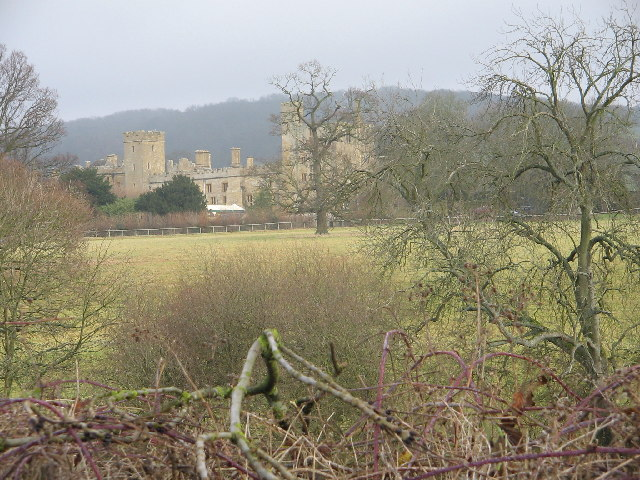 Sudeley Castle